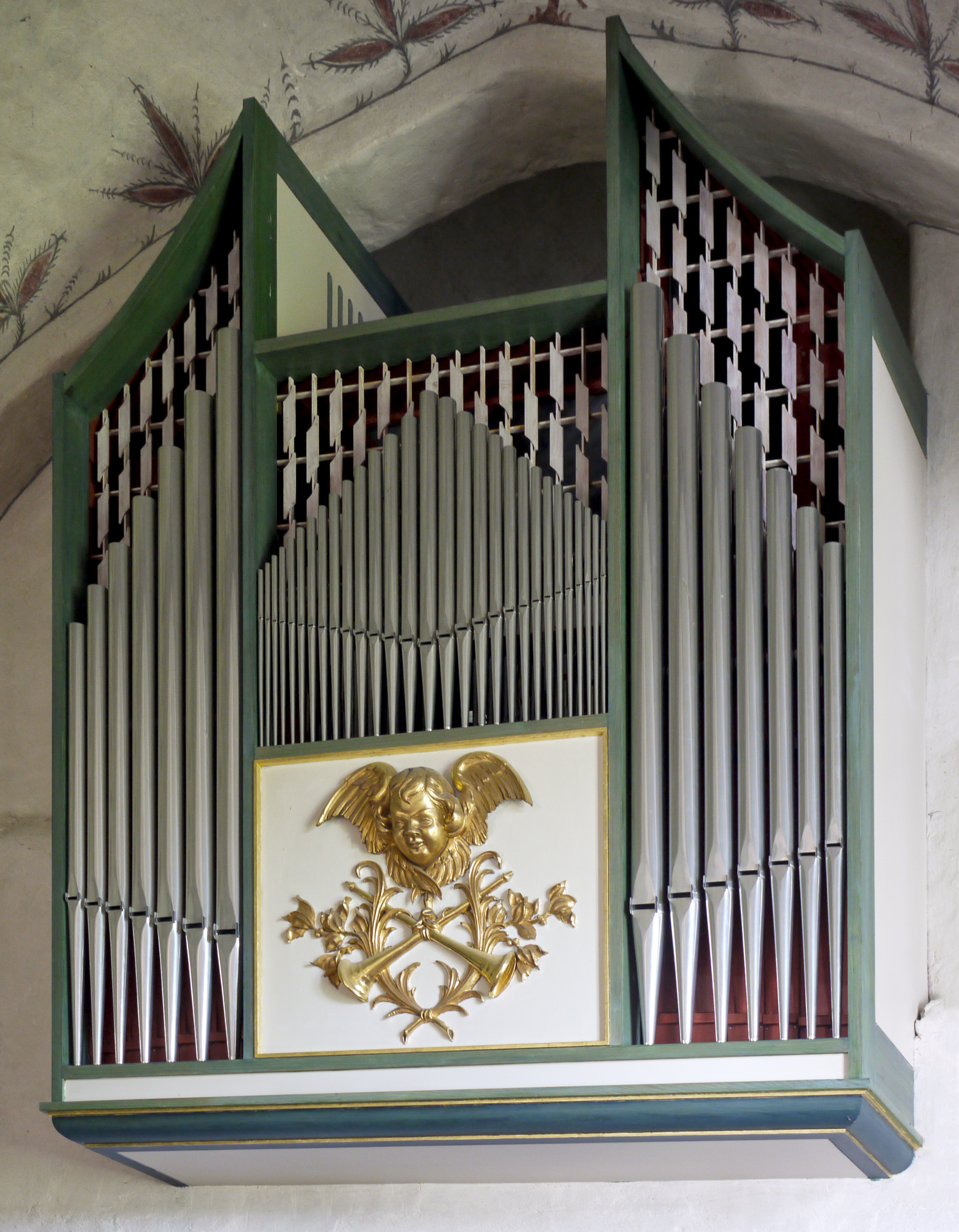 Kaga church, Diocese of Linköping, Linköping, Sweden. Church organ